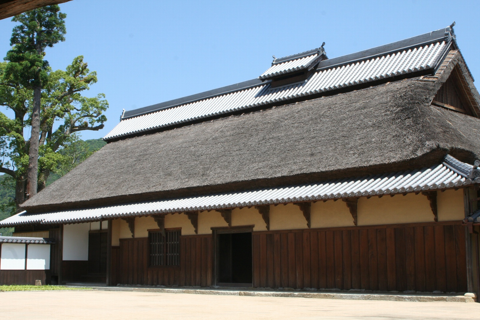 Miki residence main house,Hyogo prefecture、himeji,japan